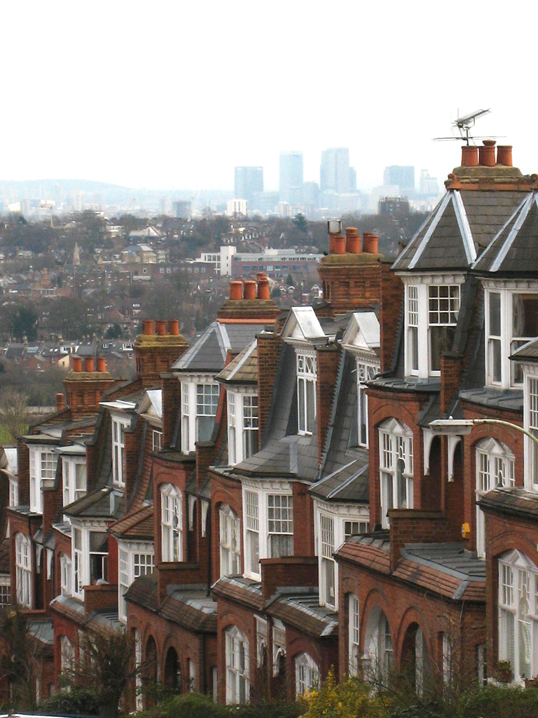 Hillfield Park, Muswell Hill - view of Canary Wharf.